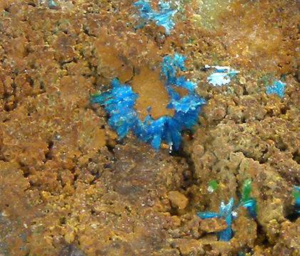 Lavendulan, Cornwallite Locality: Dolores prospect, Pastrana, Mazarrón-Águilas, Murcia, Spain (Locality at ) Size: 2.8 x 2.0 x 1.9 cm. Lavendulan is a relatively rare arsenate and the intense blue color is very distinctive. The Pastrana area in Spain has produced some very attractive specimens of this species. This particular specimen features beautiful intense blue, platy "sprays" of Lavendulan which is associated with the rare copper arsenate, Cornwallite. A good representative specimen for this hard-to-find and colorful association from Spain. Ex. Brian Kosnar Collection.